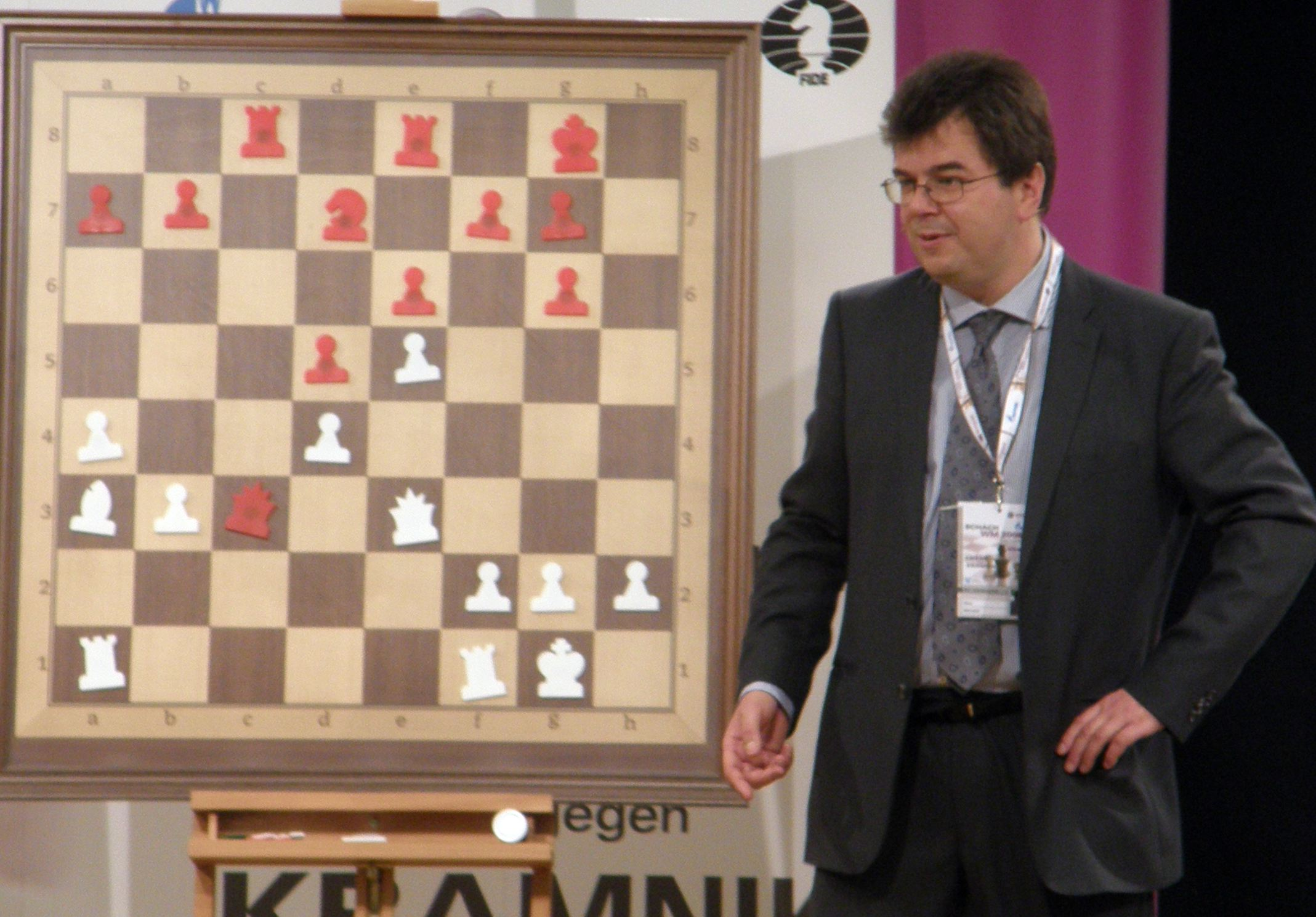 Klaus Bischoff, chess grandmaster from Germany.